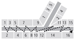 Diagram showing a classical kind of house numbering.